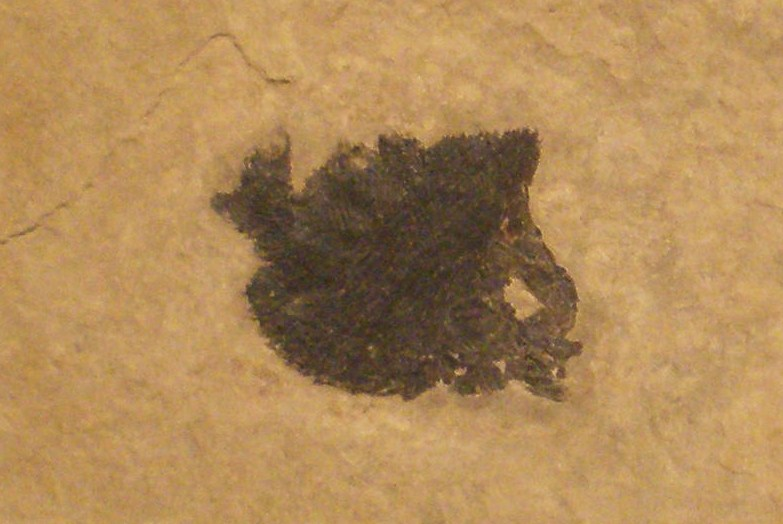 Fossil of Gibbodon cenensis, an extinct fish